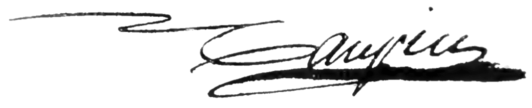 Signature of the french general Éloi-Charlemagne Taupin